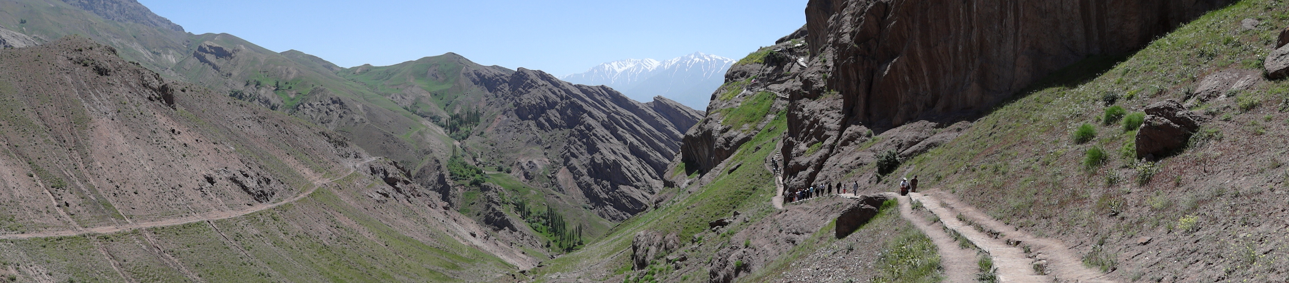 Panorama en route to Alamut Castle - Northwestern Iran